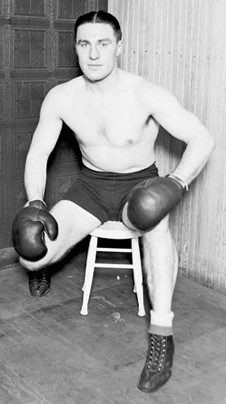 "Full-length portrait of light heavyweight boxing champion Tommy Loughran sitting on a stool in front of a light-colored backdrop and a dark-colored backdrop in a room in Chicago, Illinois."